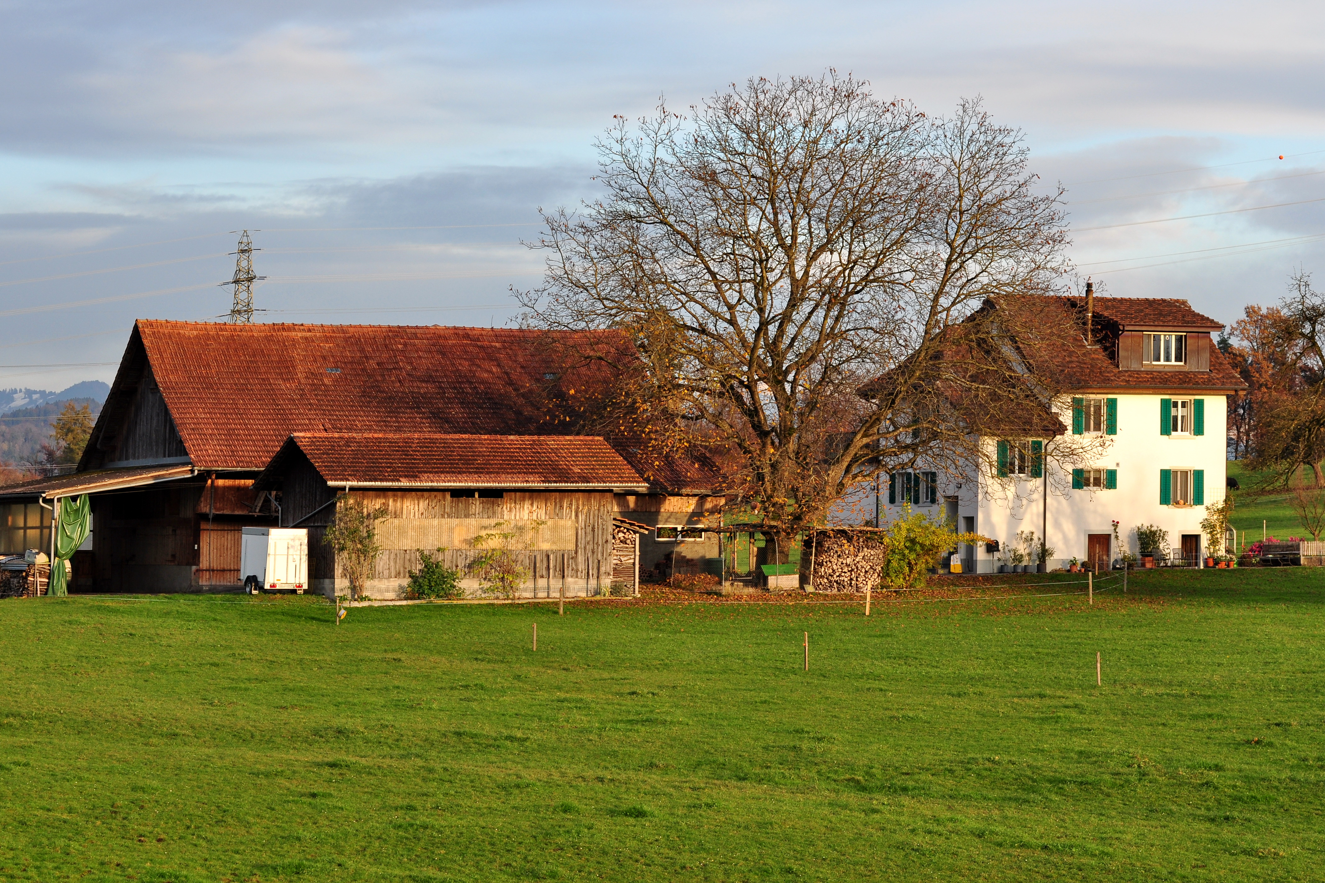 Wolfhausen respectively Barenberg in Bubikon towards Kempraten-Lenggis (Switzerland)